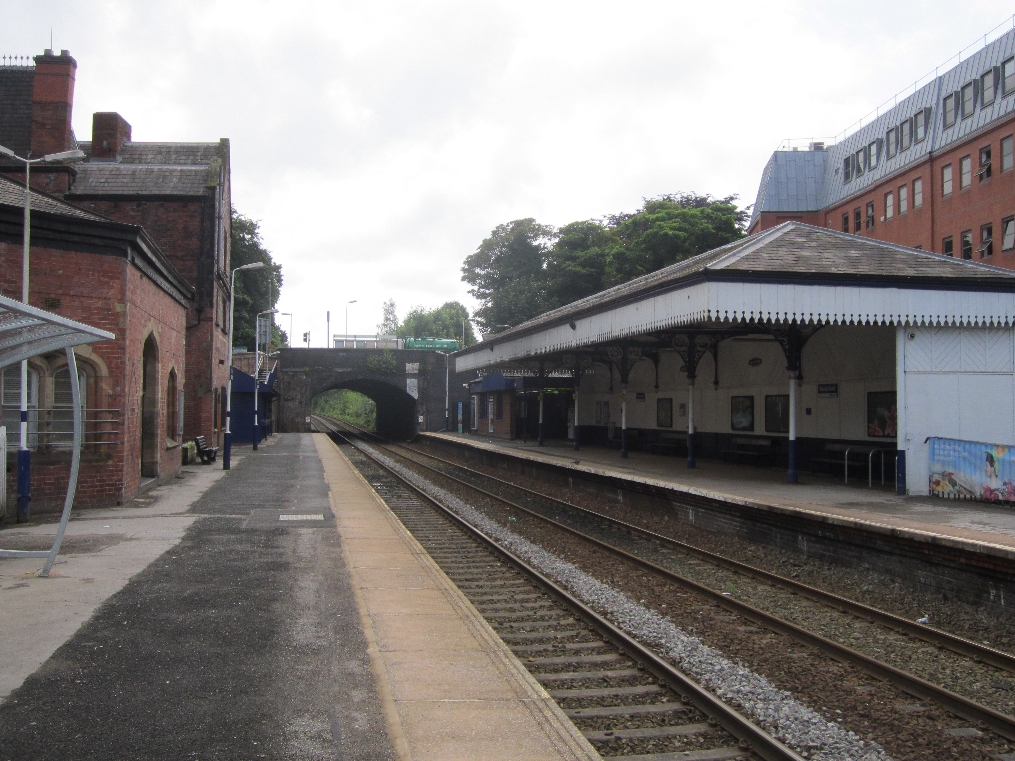 Knutsford railway station, Cheshire, England.